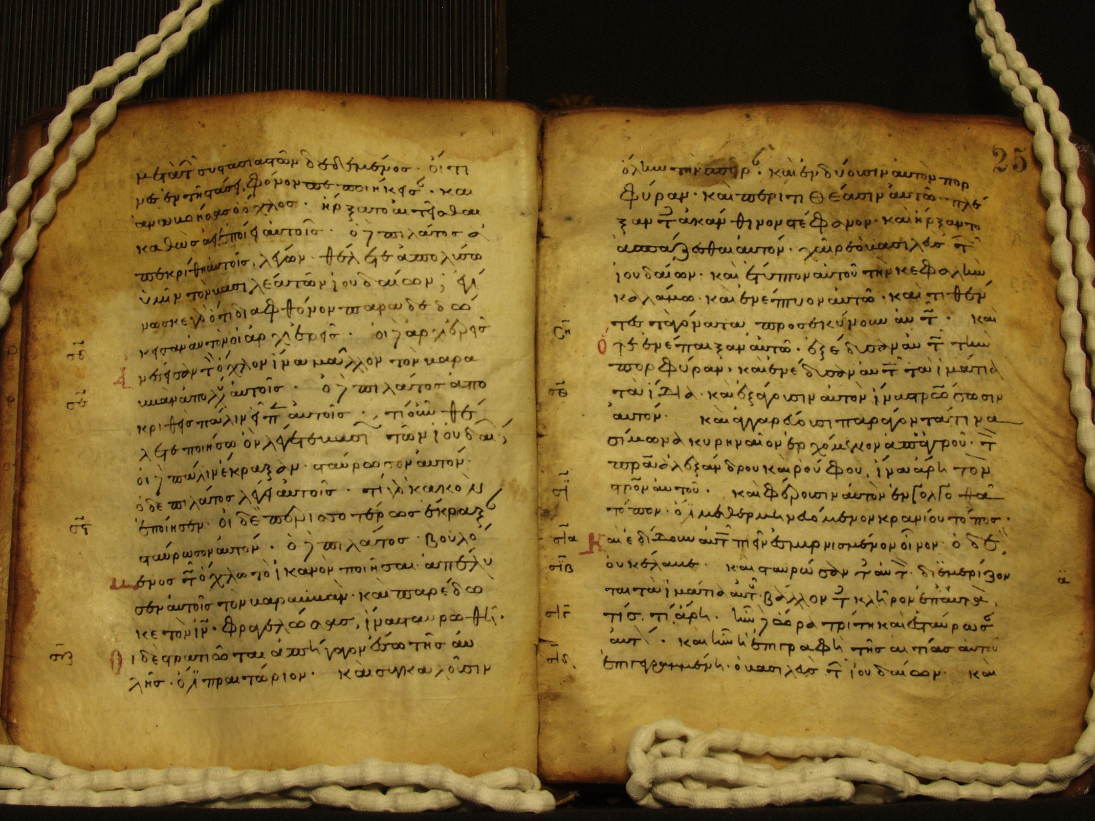 two pages of the codex with text of Mark 15:6-27